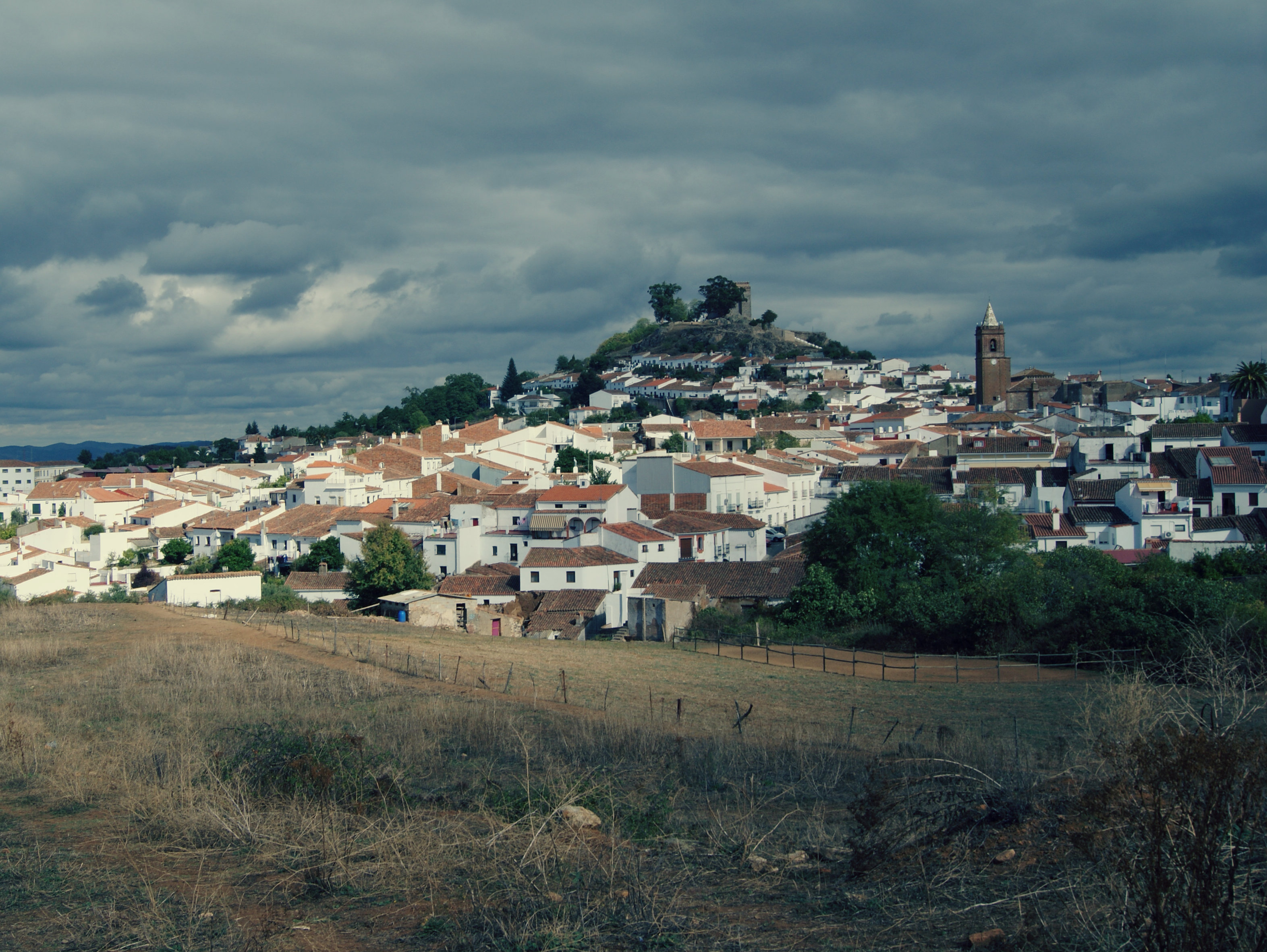 Landscape of Cortegana. Paysage de Cortegana. Paisaje de Cortegana.